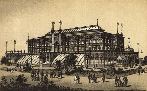 1876 Centennial Exposition engraving showing Horticultural Hall, Philadelphia